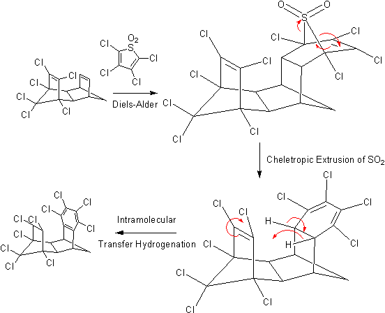 A more exotic transfer hydrogenation. Angew. Chem. Int. Ed. (Engl.) 1994 2239 I release this document under the following licence